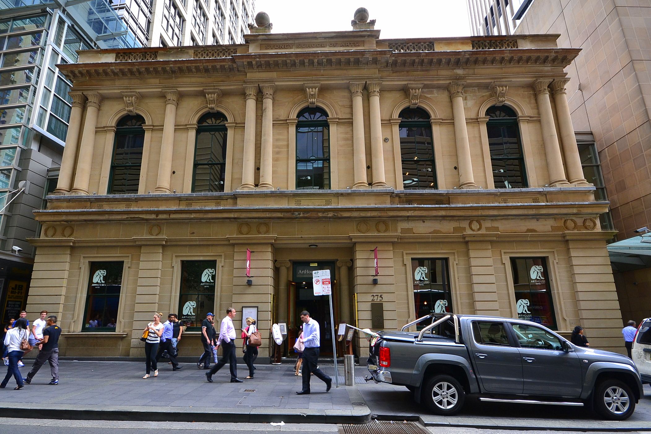 Sydney School of Arts building, also known as the Arthouse Hotel, Pitt St, Sydney